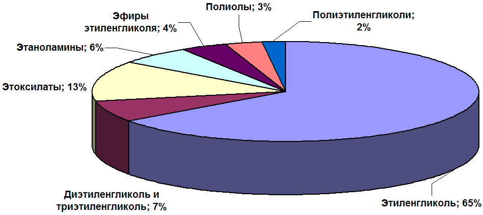 Ethylene Oxide (EO) Uses and Market Data